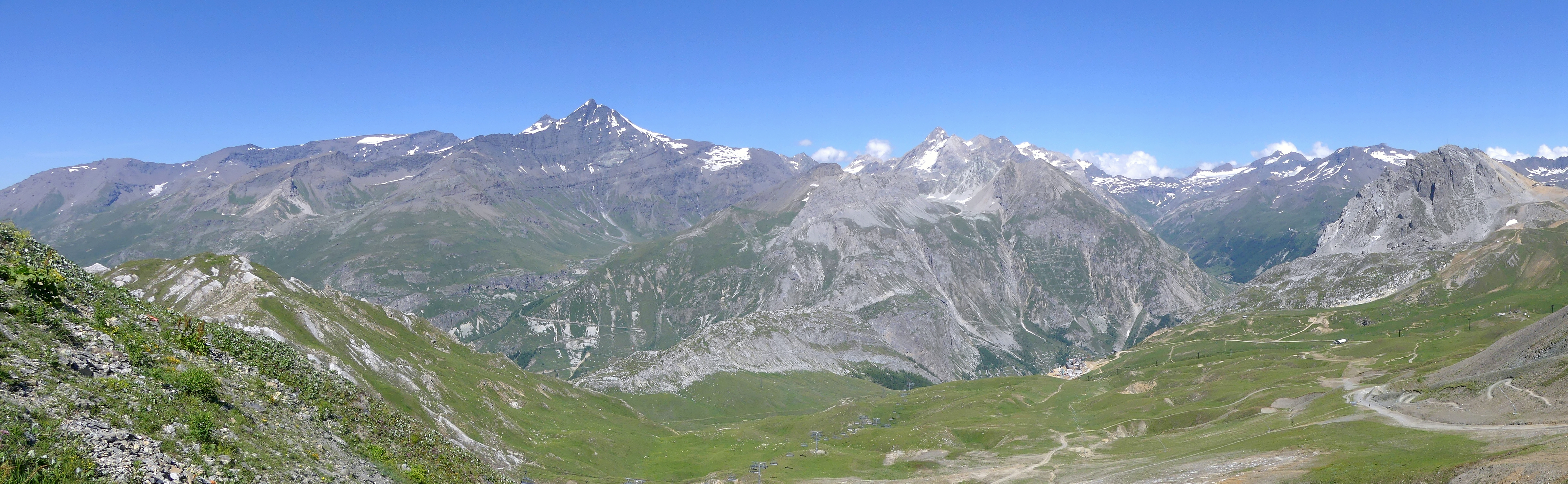 Panoramic sight, from the the heights of Tignes and Val-d'Isère, of the upper valley of Isère, which source glaciers are visible on the right, in Savoie, France.